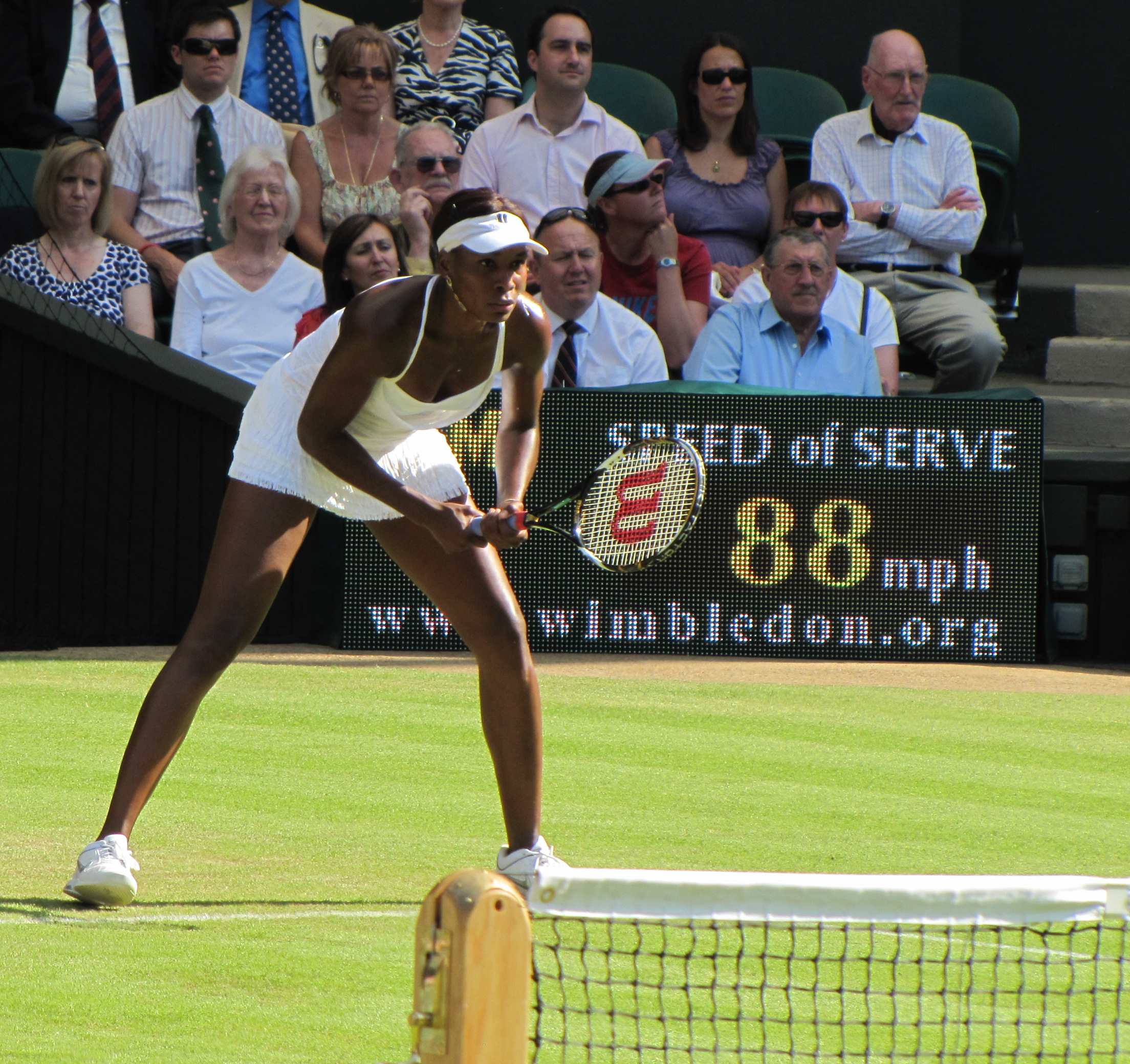 Venus Williams at Wimbledon 2010